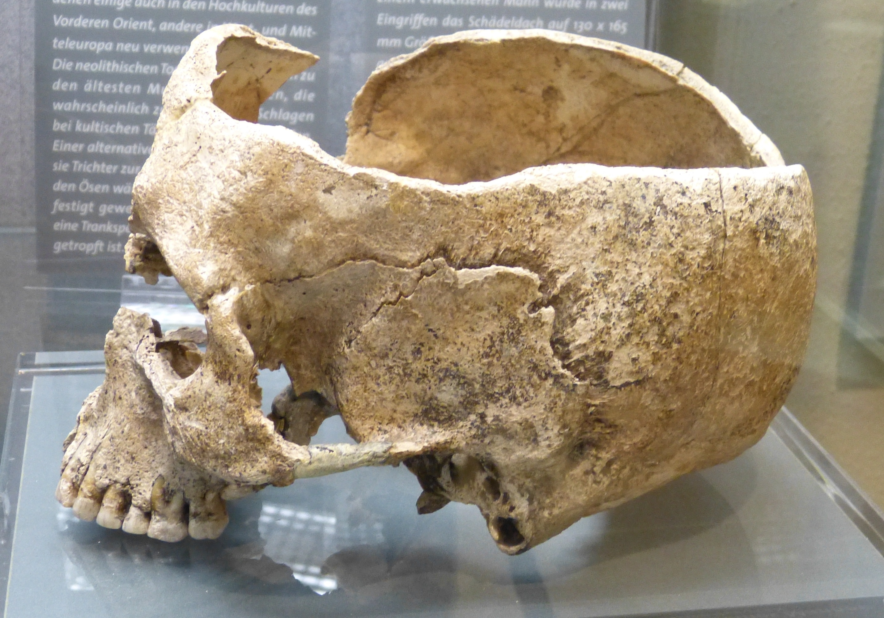 Weimar ( Thuringia ). Museum for Prehistory in Thuringia: Neolithic extra-size ( 130x165 mm ) trepanation from Nordhausen.